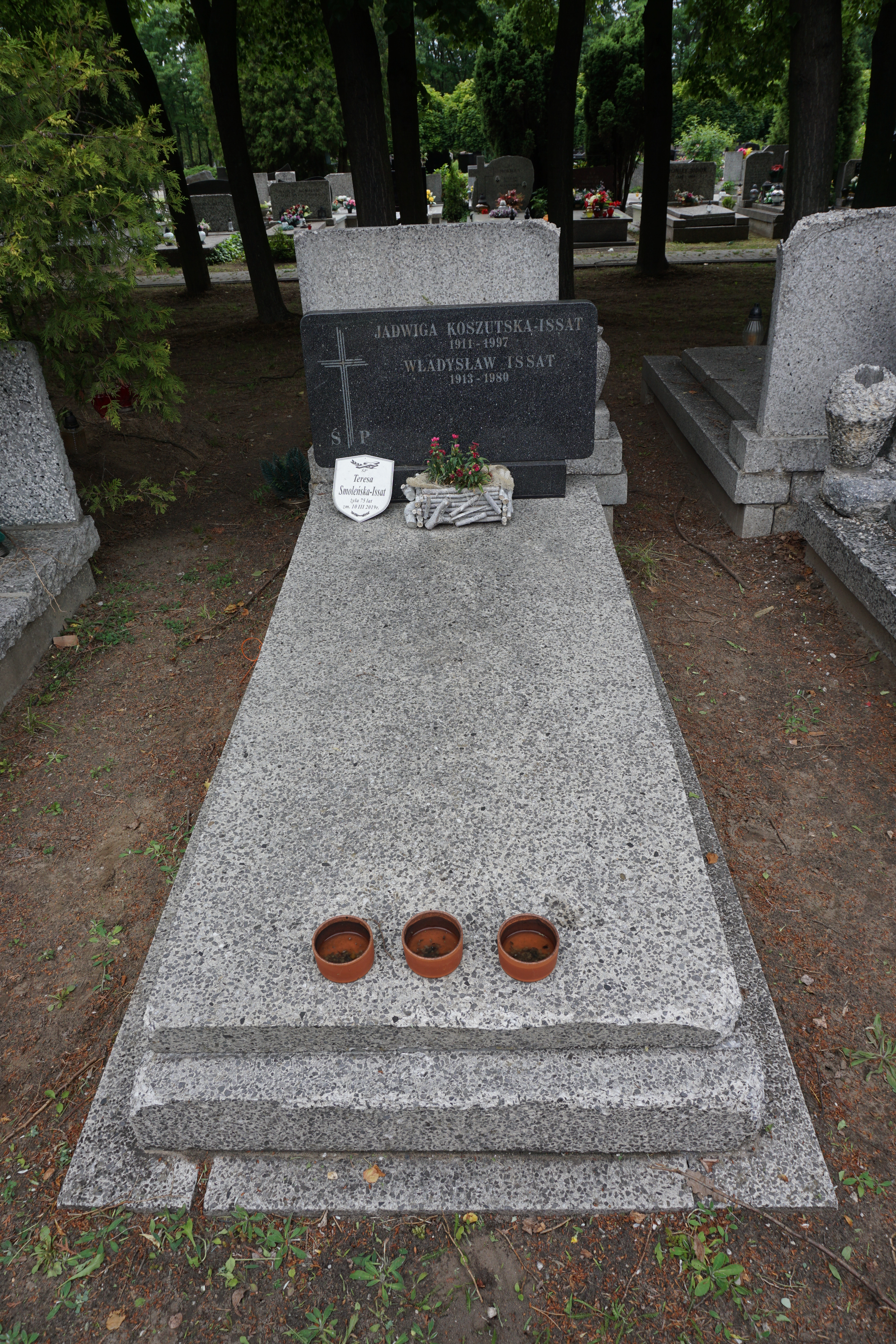 The grave of Jadwiga Koszutska-Issat at the North Municipal Cemetery in Warsaw (section E-VI-2, row 2, grave 17)